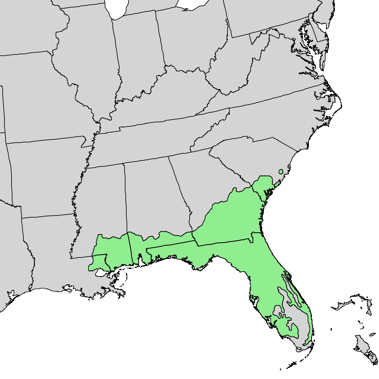 Natural distribution map for Pinus elliottii